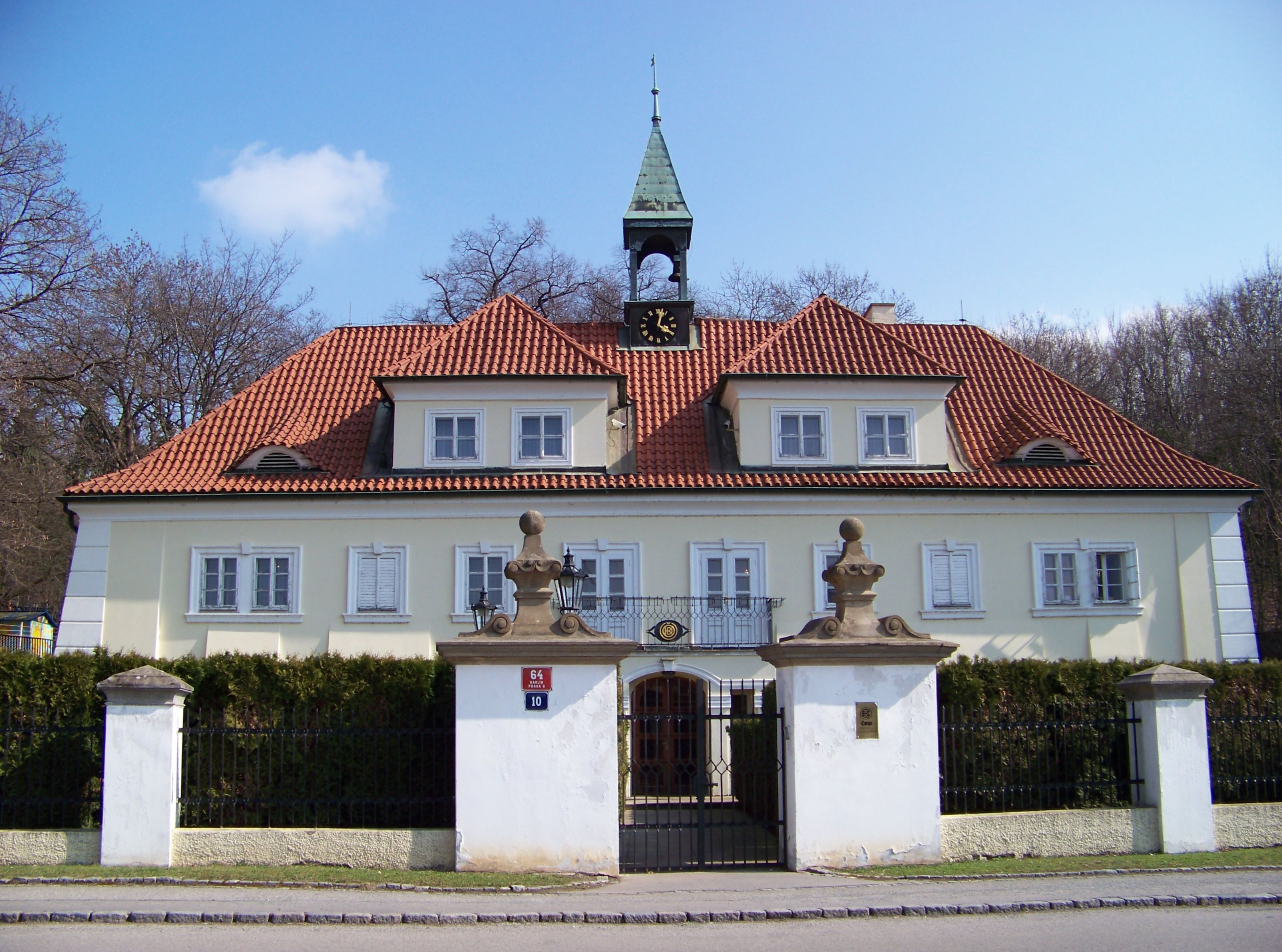 Prague-Karlín, the Czech Republic. U Sluncové 64/10, Sluncová mansion.